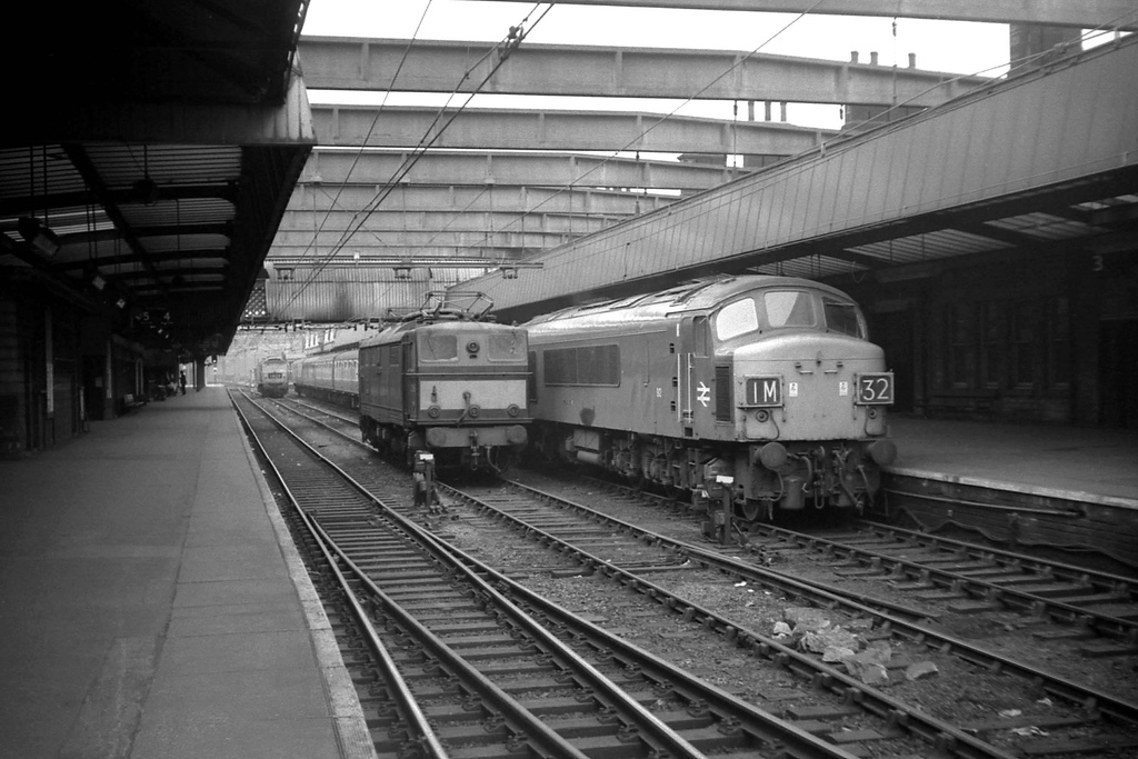 Sheffield Victoria station September 1969. EM1 E26055, named Prometheus, stands in the centre road waiting to takeover the Manchester train from Peak diesel 92 which is arriving from the south. Trains were diverted over the Woodhead route because of tunnel work on the Midland main line north of Chesterfield. The Class 47 in the distance waits to take the next southbound arrival from Manchester.Sheffield Victoria September 1969